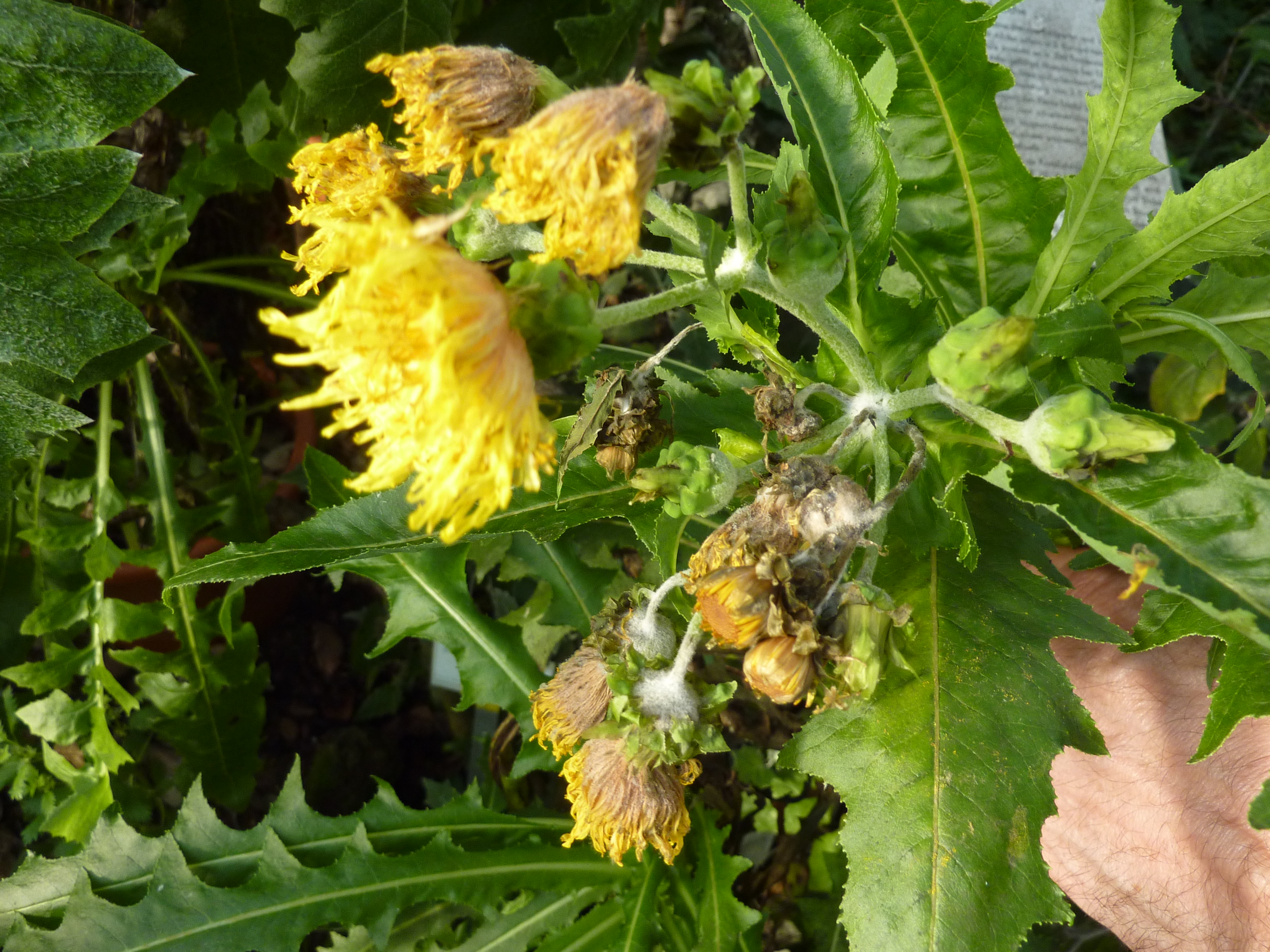 Sonchus congestus in the Botanical Garden, Berlin